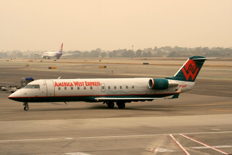 A Mesa Airlines Bombardier CRJ200LR in the colours of America West Express at Los Angeles International Airport.